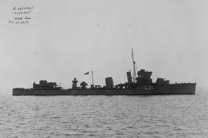 HMS Viceroy Underway.